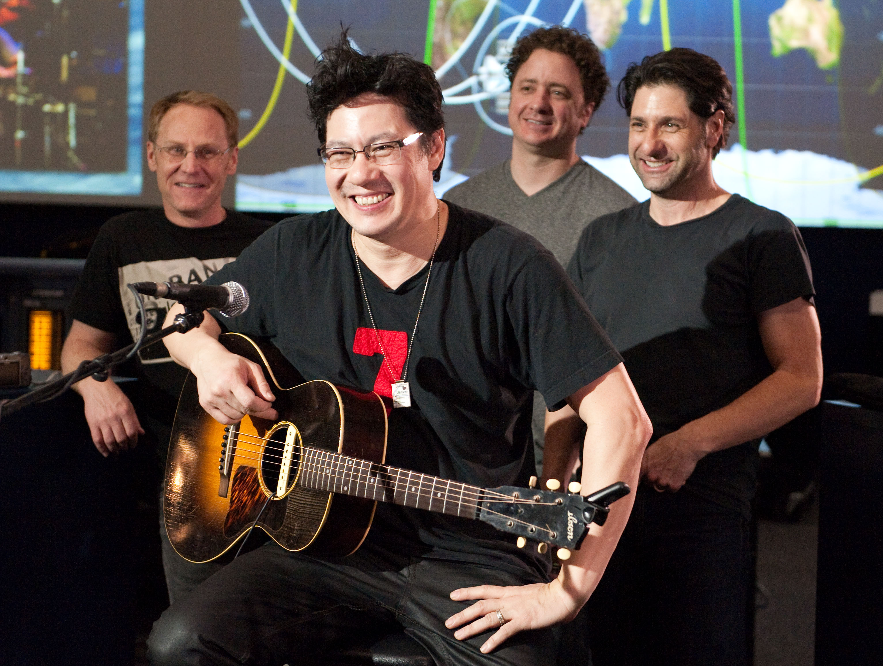 Big Head Todd & The Monsters play live in Mission Control for STS-133 crew's wakeup song. The song received the most votes in NASA's Top 40 song contest receiving 722,662 votes (29 percent of the 2, 463,774 total). It was originally written as a tribute to the space program and workforce. The live performance was the first time a shuttle crew has been awakened live from Mission Control, Houston.